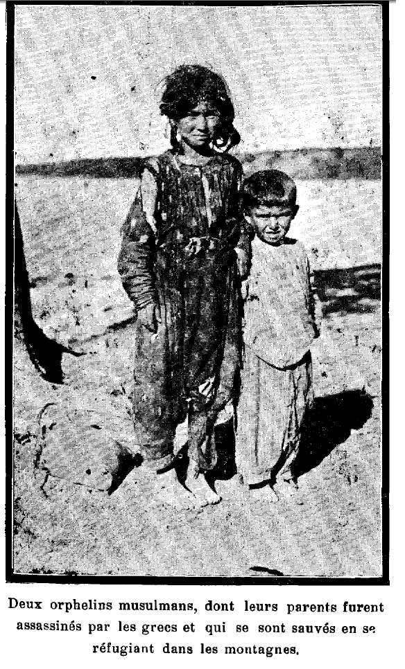 Two little Muslim orphans, their parents were killed by Greeks. 1921.